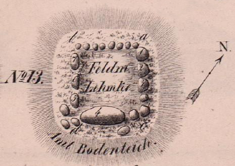 Megalithic tomb Lehmke 3